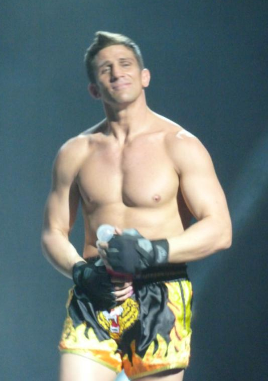 Picture of Alex Reid performing on the Wildboyz! tour in 2012